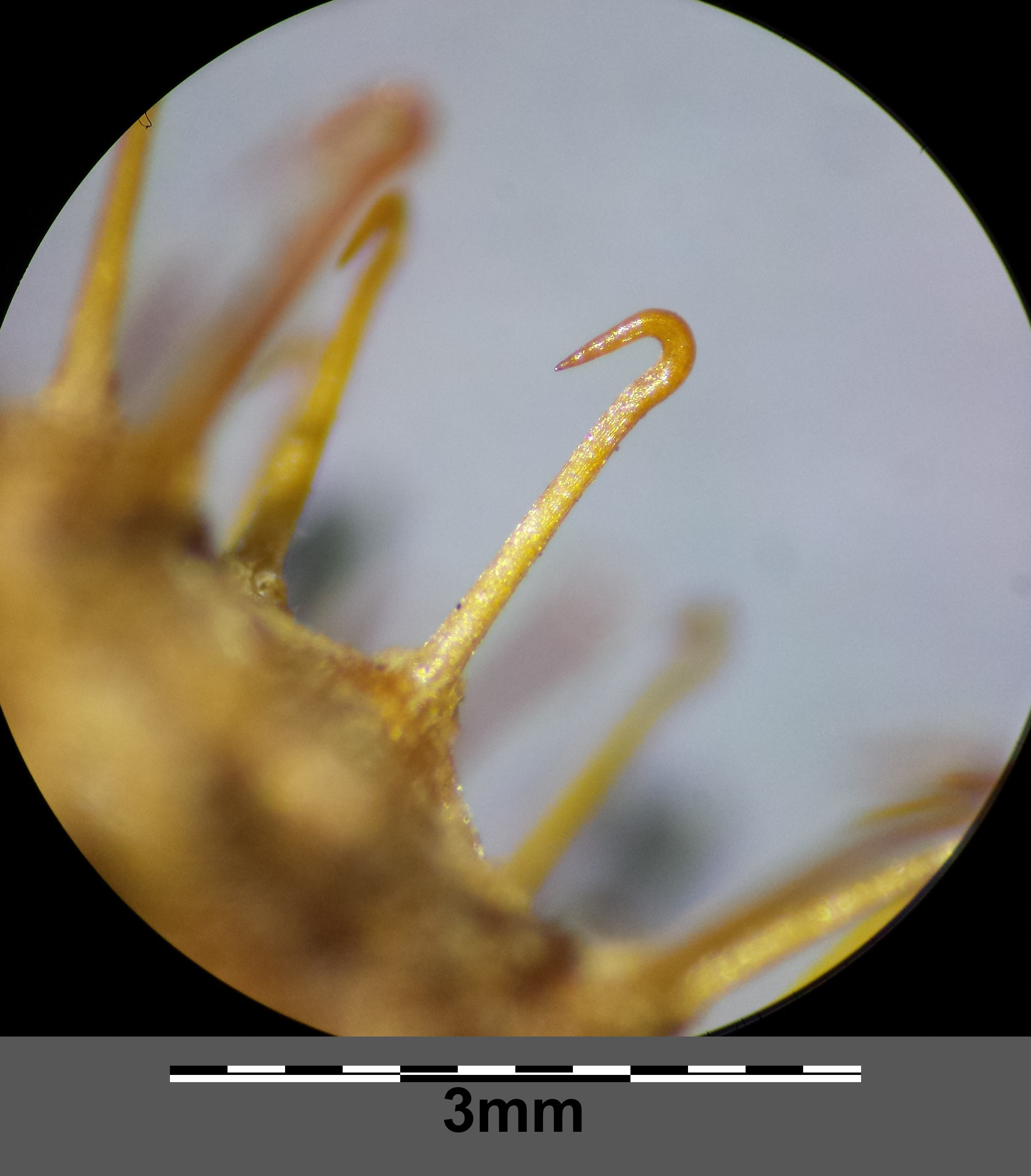 ♀ capitulum with slender spines Taxonym: Xanthium spinosum ss Fischer et al. EfÖLS 2008 ISBN 978-3-85474-187-9 Location: 0,7 km nordöstlich von Roseldorf, district Korneuburg, Lower Austria - 240 m a.s.l. Habitat: field of potatoes